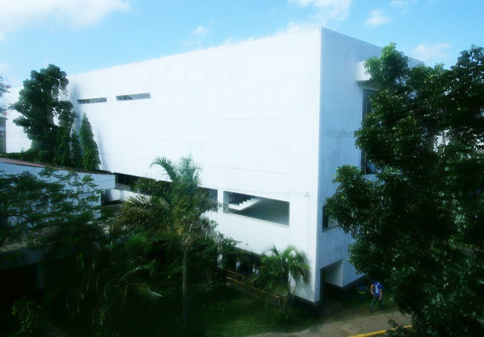 The Polytechnic University of the Philippines Santo Tomas Cultural Building.